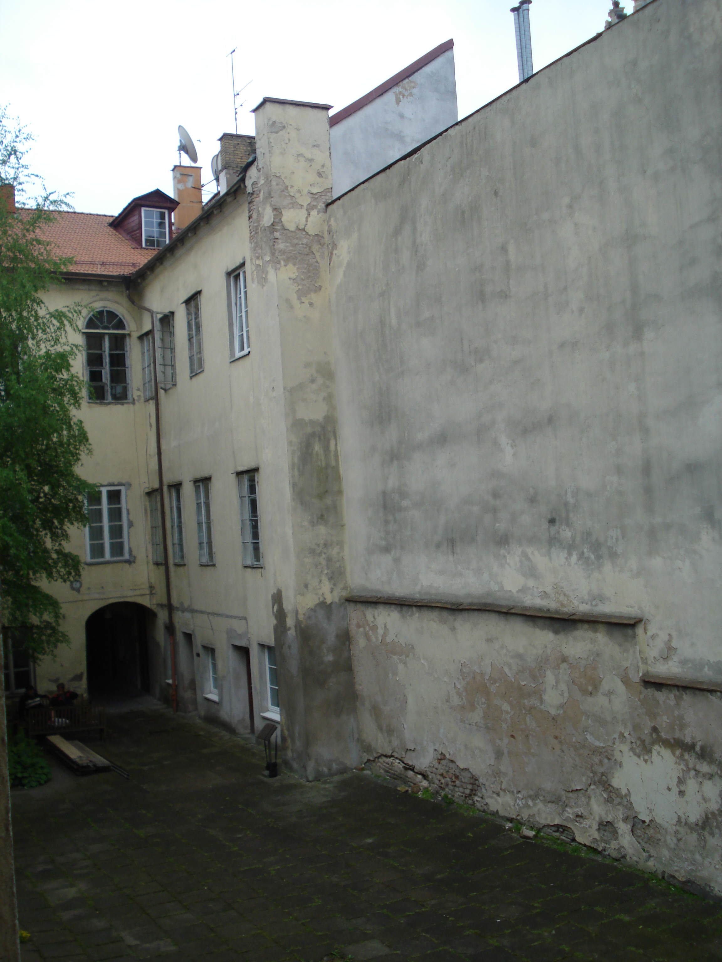 Stanevičius Courtyard Courtyard (Vilnius University)